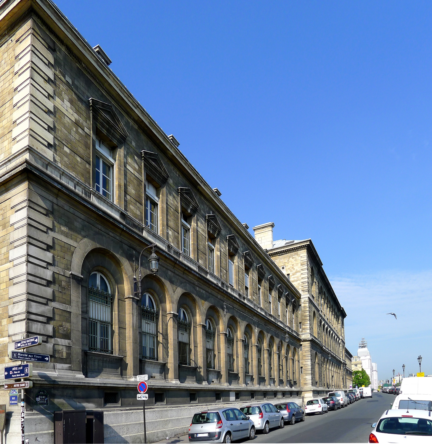 Quai de la Corse - Paris